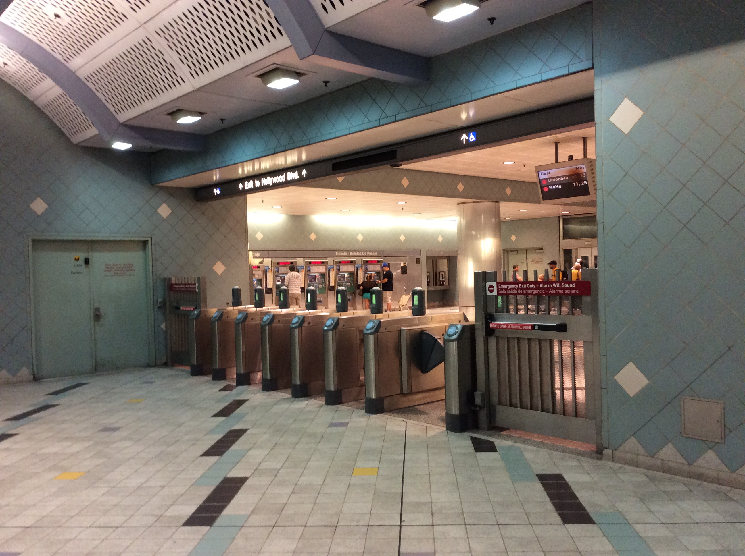 The ticket gate and machine at Hollywood-Highland Station.